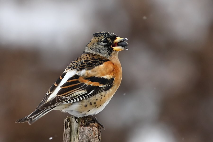 A male Brambling in Poland.